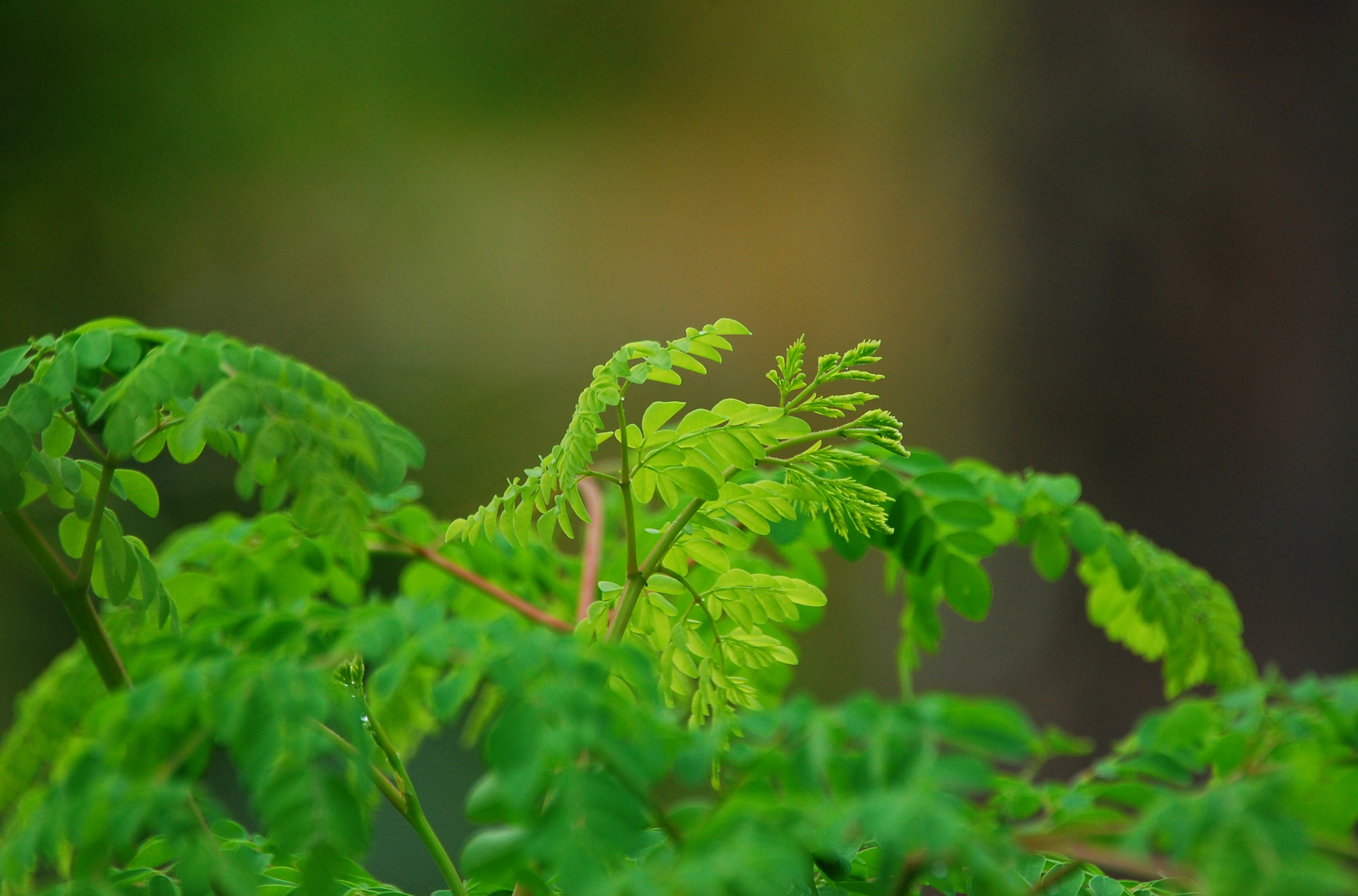 Moringa oleifera‌.